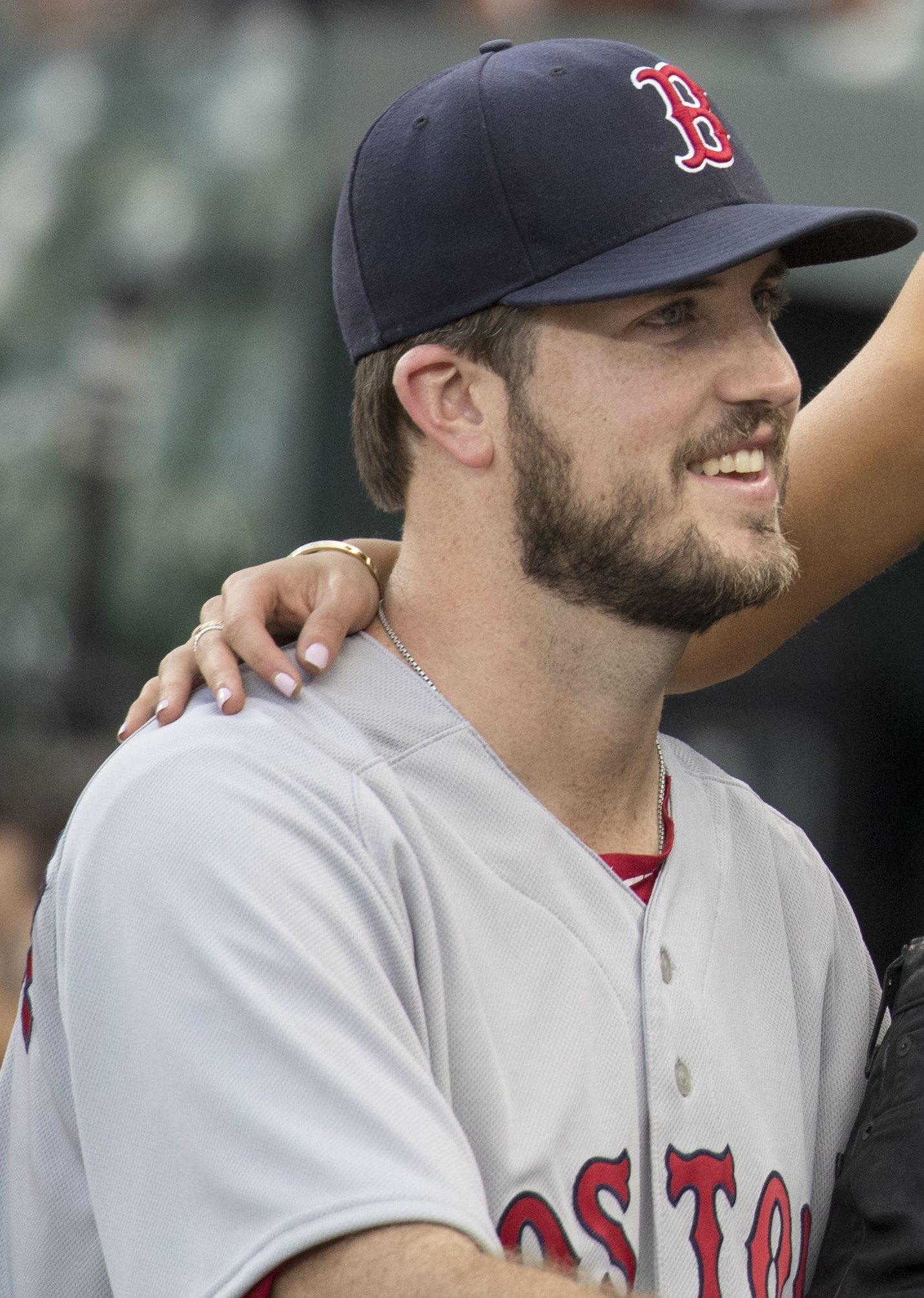 Red Sox at Orioles 9/18/17